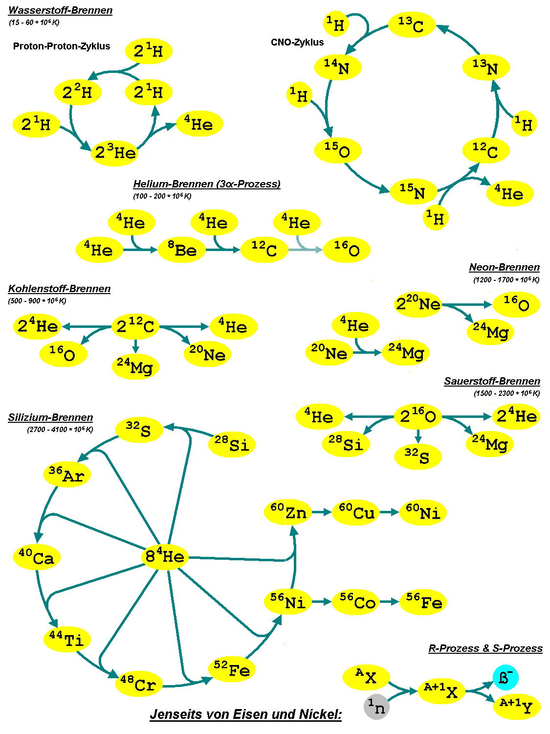 Creation of elements beyond carbon through carbon burning, neon burning, oxygen burning and silicon burning